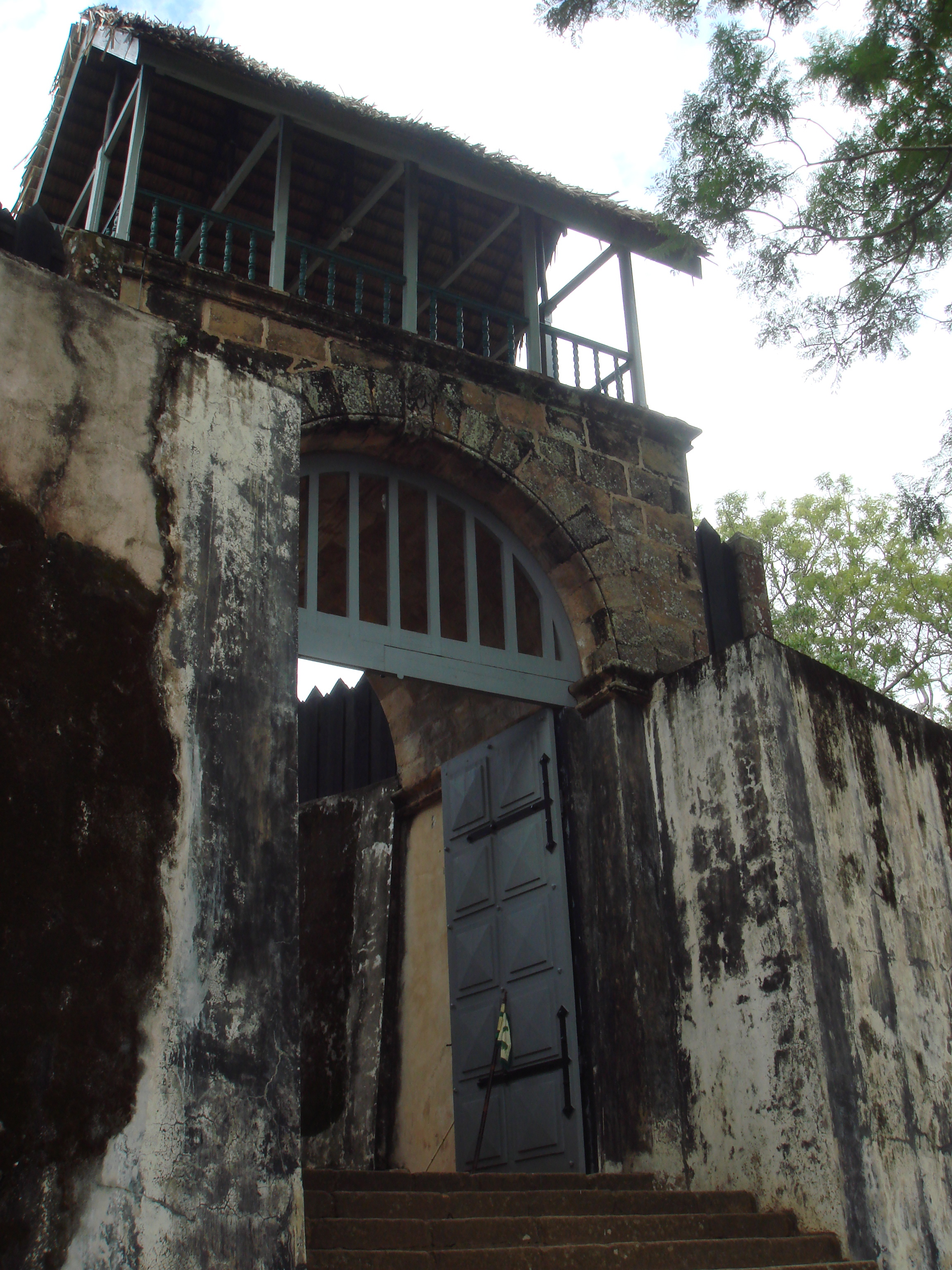 The Palace of Ambohimanga.